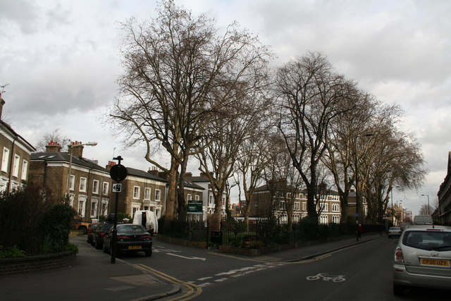 Cassland Road and Cassland Crescent, South Hackney Cassland Crescent, on the left, makes a shallow bow on the north side of Cassland Road. The space between the roads is an unbuilt green space with plane trees.